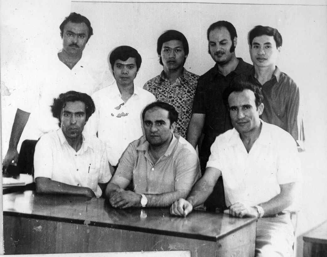 tədbir 1